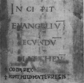 An inscription on the verso of a page in the Coronation Gospels presented by King Athelstan to Christ Church Priory. British Library MS Cotton Tiberius A ii. See also Image:Coronation_Gospels_Athelstan_Saint_Matthew.jpg which has an image of the front of this page.